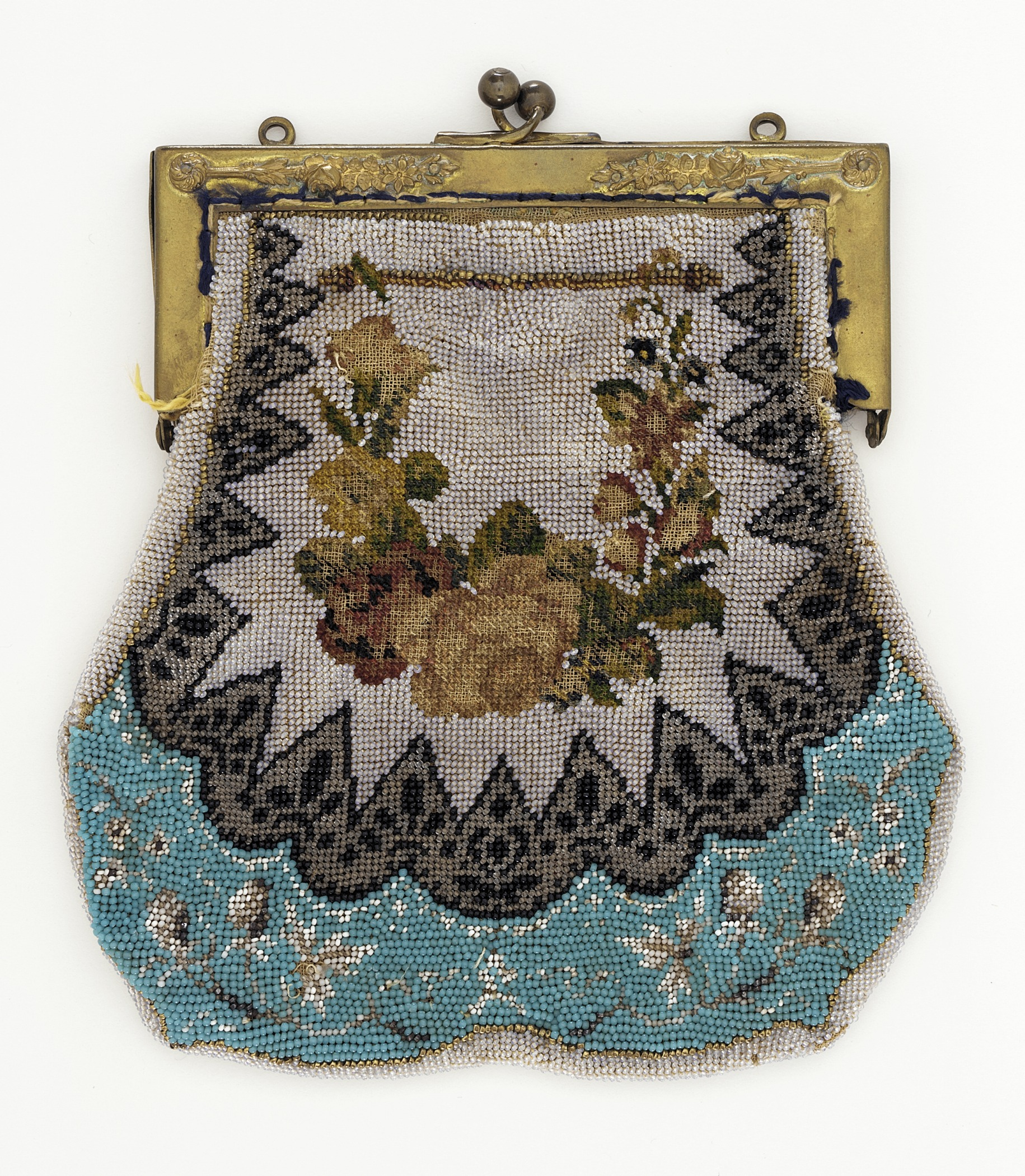 United States, circa 1860 Costumes; Accessories Glass beads, gilded brass Gift of Mary H. and Martin B. Retting (M.85.85.27) Costume and Textiles